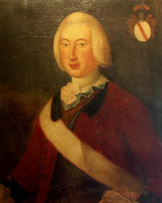 Portrait of Valentin Wilhelm Hartvig Huitfeldt (1719-1792), Dano-Norwegian general